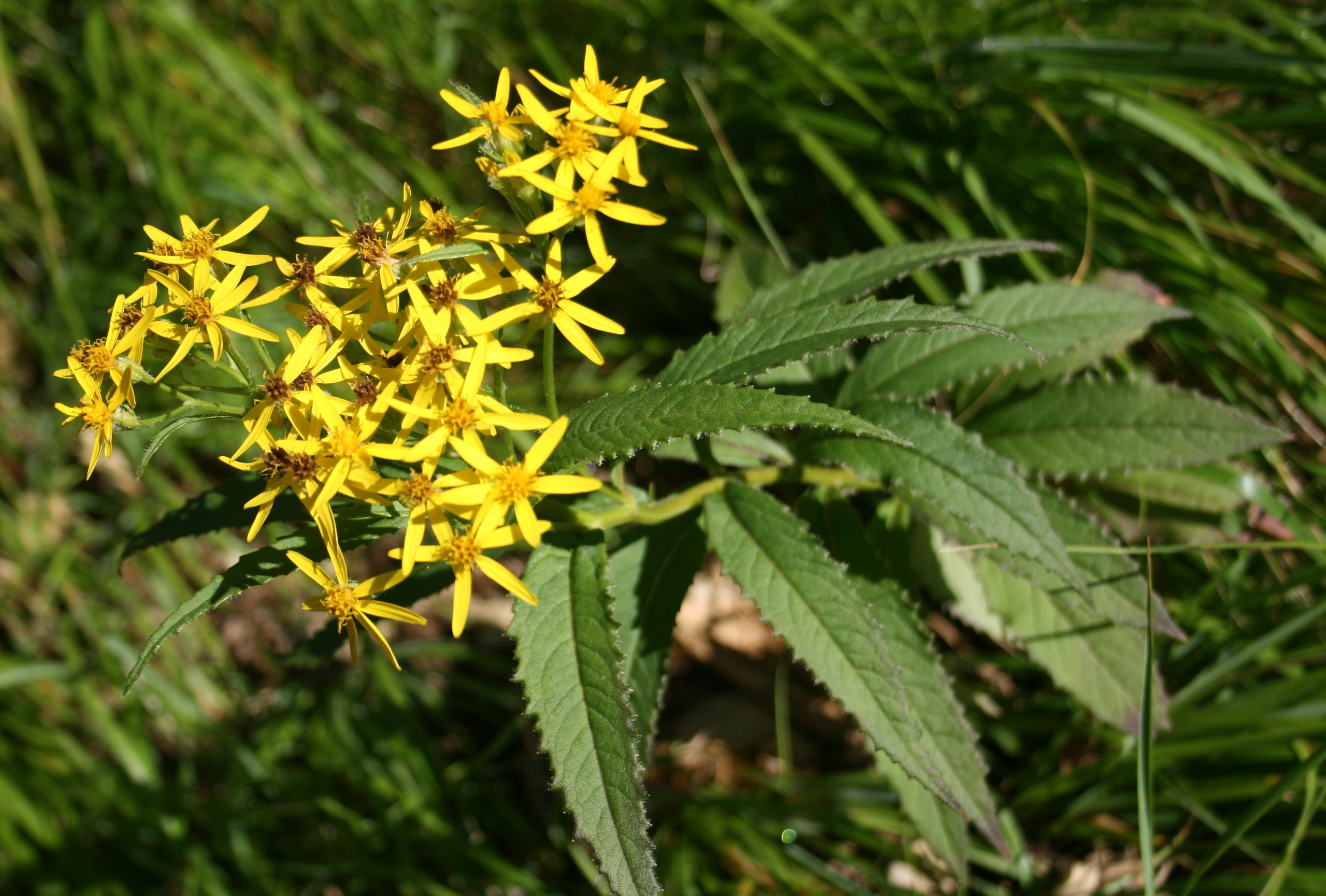 Senecio nemorensis, in Mount Ontake, Nagano prefecture, Japan.